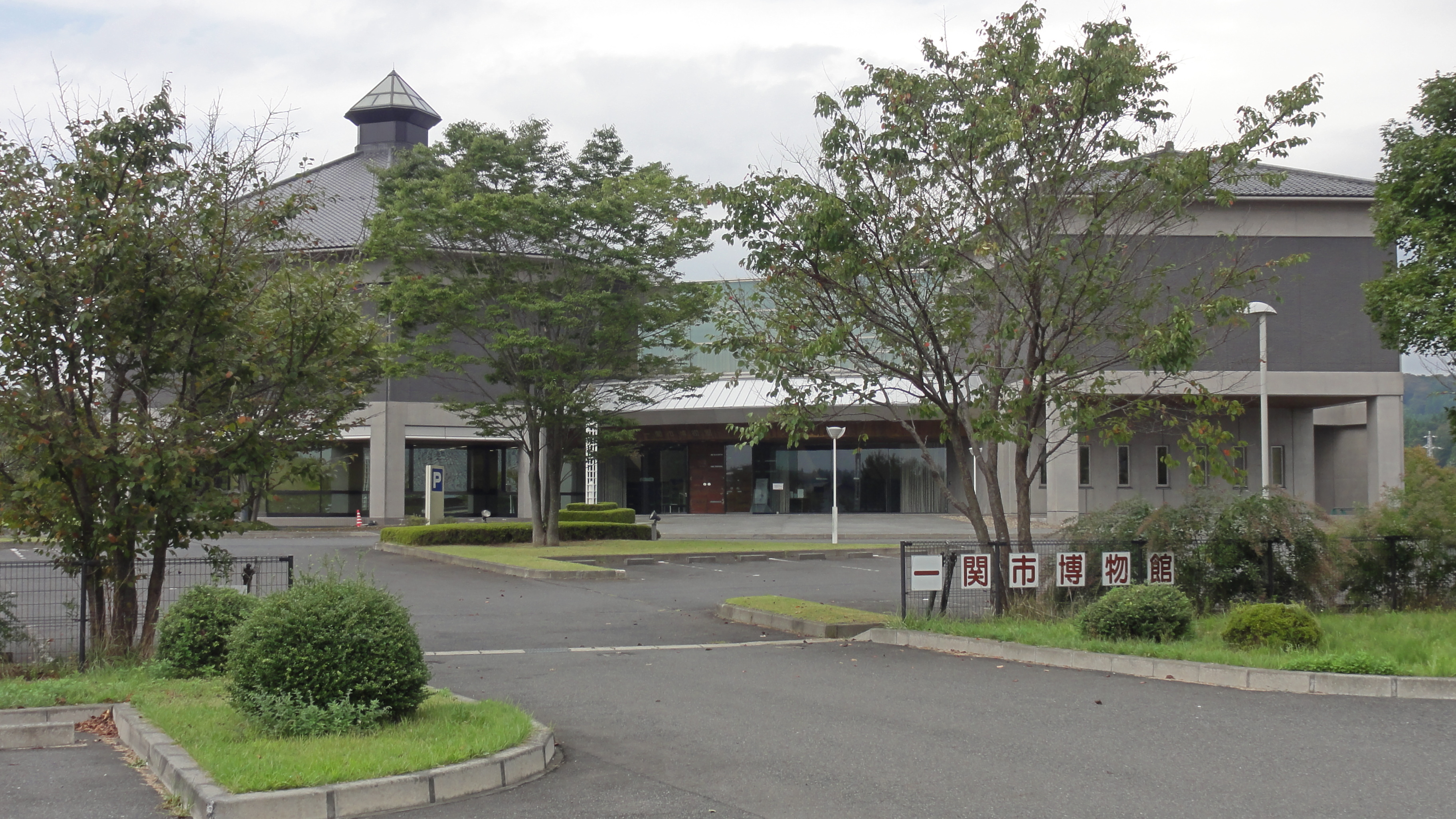 Ichinoseki City Museum, Iwate prefecture, Japan